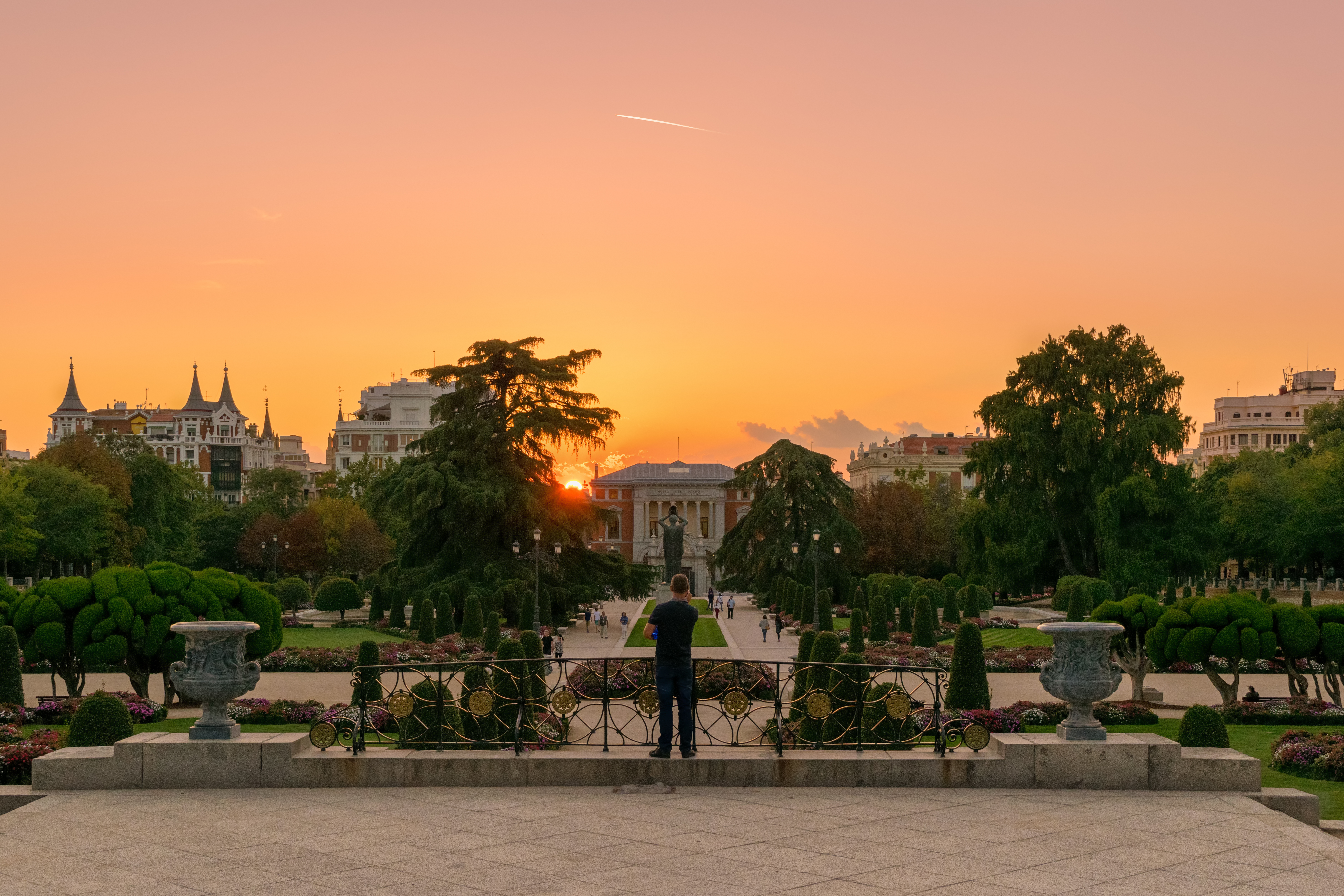 I like to keep my gallery varied. I'm always stumbling from black and white to color, from landscape to cityscape and so on. I guess I haven't found my comfort zone yet, or I might just like to touch a bit of here and there every now and then. Anyway, as long as I feel happy with pictures like this, I'll keep shooting everything.